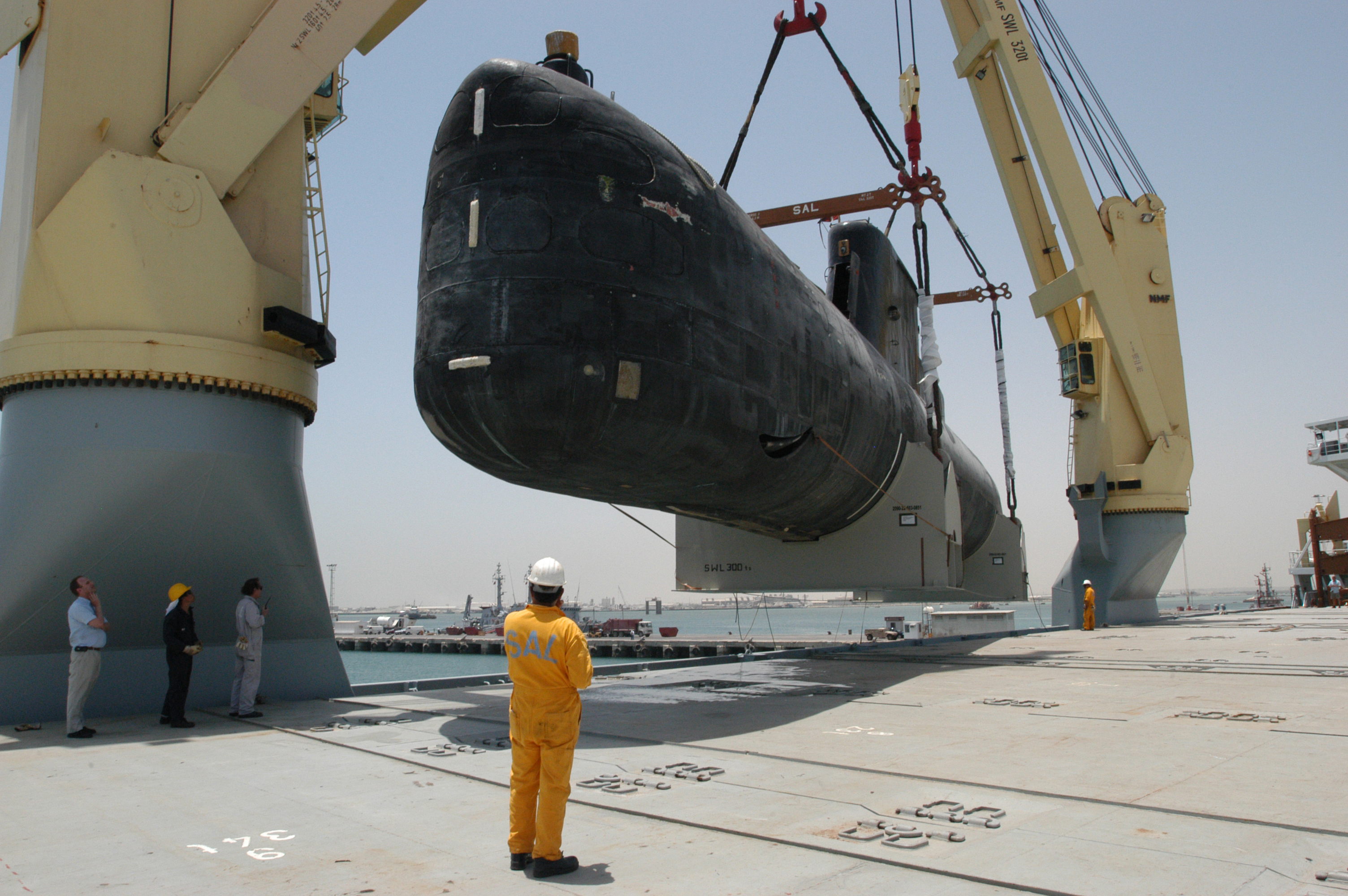 Manama, Bahrain - The Royal Danish Navy submarine Her Danish Majesty’s Ship HDMS Saelen is lifted aboard the German contract vessel Grietje. The submarine will be transported from Bahrain to Denmark inside the Grietje in the Danish Navy's first cost-saving trial. Information about Grietje may be found at IMO 9147708. A ship can change name and flag state through time, but the IMO number remains the same through the hull's entire lifetime. As a result, it can be useful to identify a ship by using the IMO number.